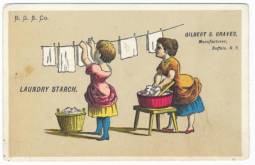 Laundry starch - Gilbert S. Graves, manufacturer, Buffalo, N.Y.